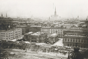 Künstlerhaus, without date (Künstlerhaus Archiv) © Künstlerhaus Archiv